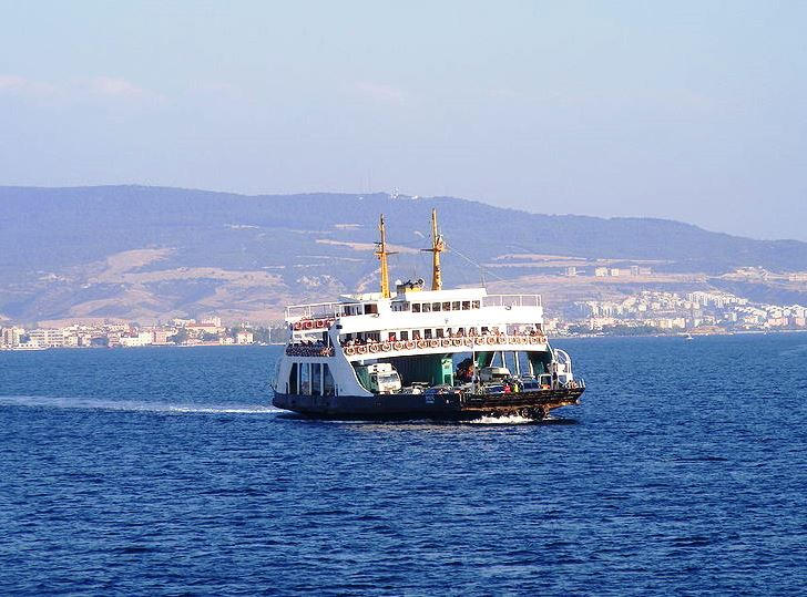 Kilitbahir Castle in Eceabat, Canakkale province of Turkey